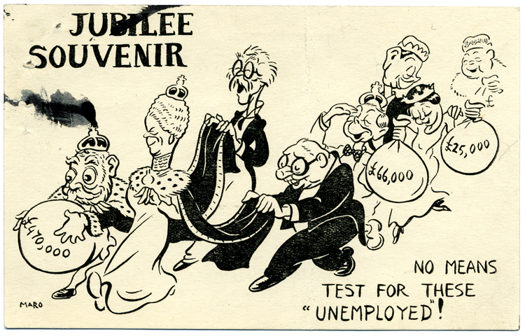 No means test for these 'unemployed'! by Maro. 1935 was the Silver Jubilee of King George V. There were celebrations and street parties across Britain. However with the country in a financial depression not everyone approved of the public expense associated with the Royal Family.